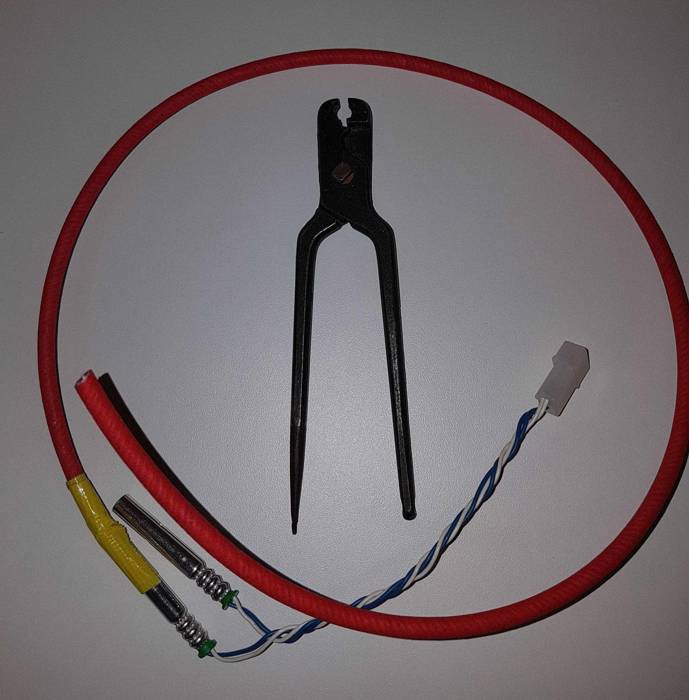 Pliers for detonators (igniter/fuse/fuze). Electrical igniter (also: lighter, fuze lighter) with a firing blasting cord (red).